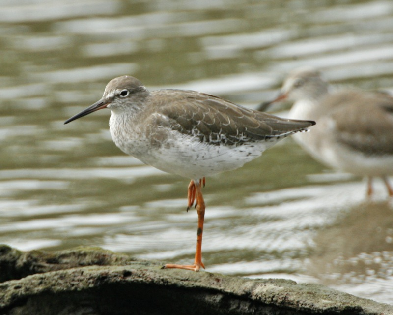 Common redshank Tringa totanus Sungei Buloh Wetland Reserve, Singapore 11th. November 2007 Distribution: _Q0S1244